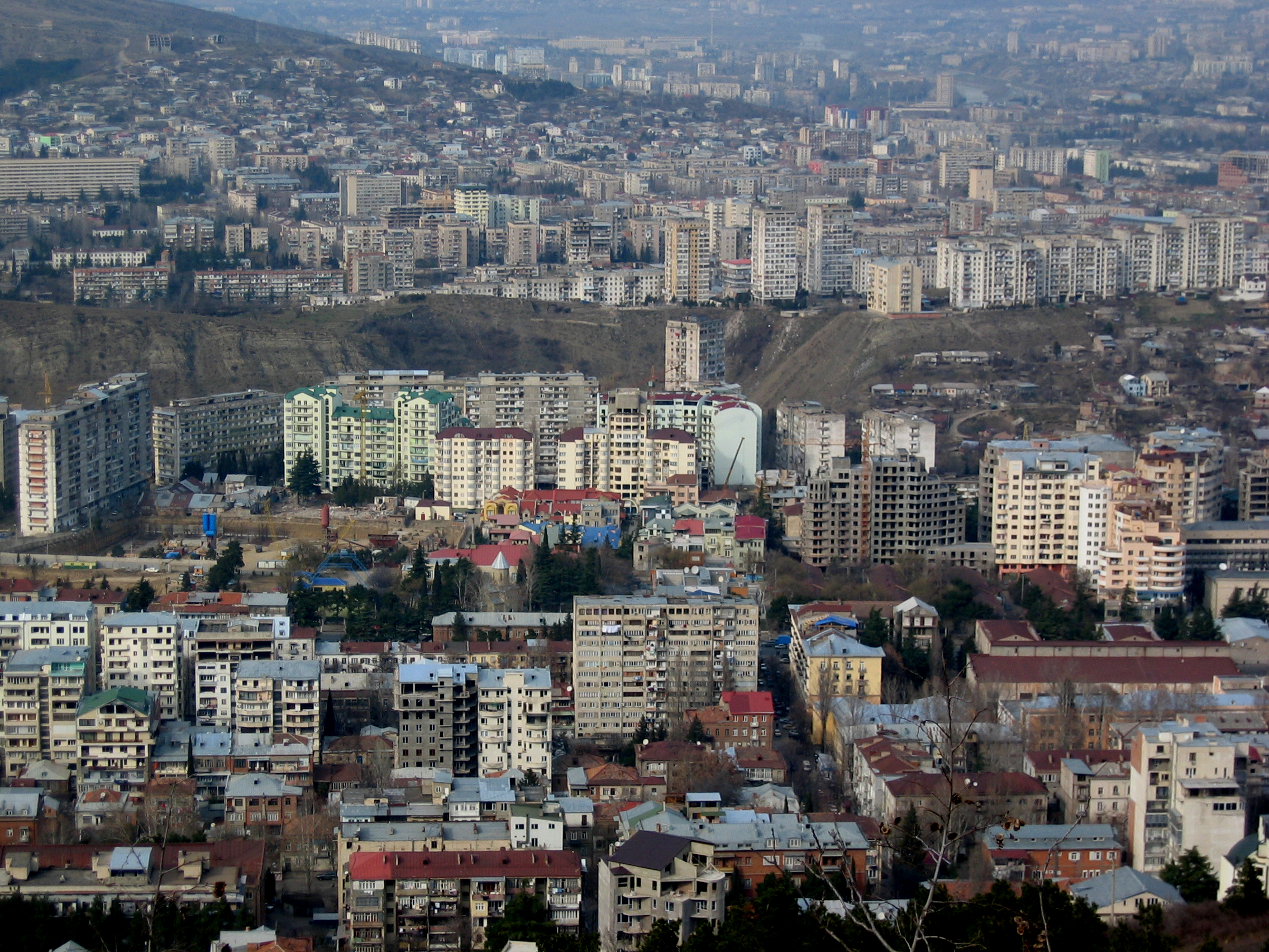 Tbilisi is a great place for views. Here's one of them.